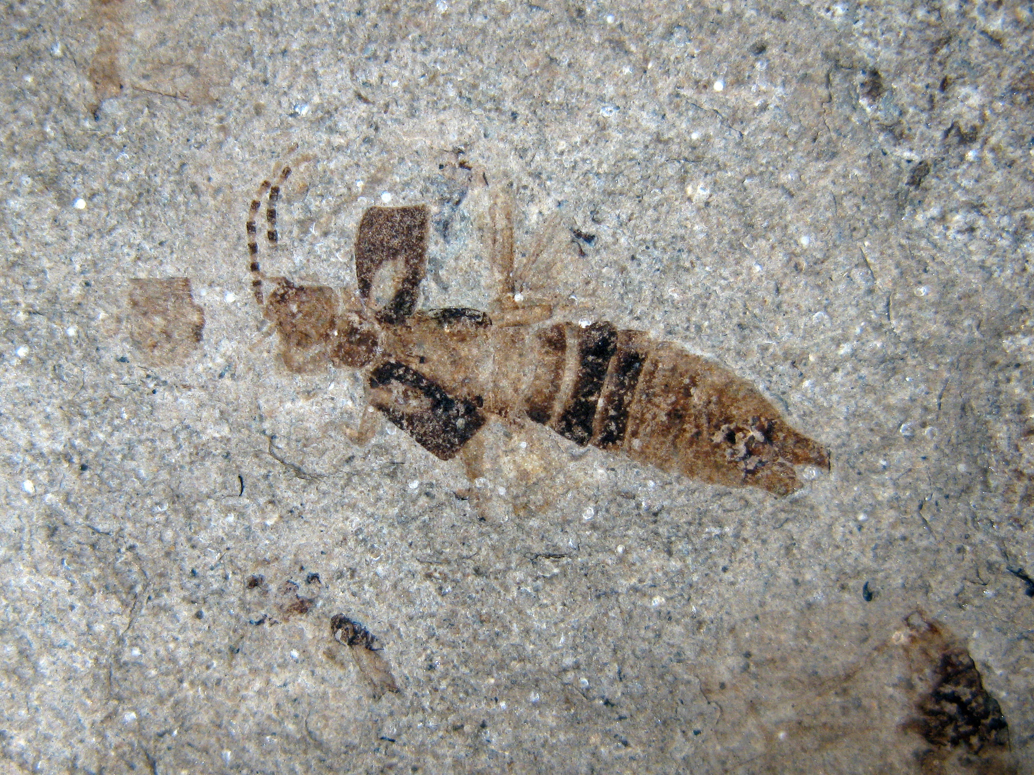 Earwig Forficula paleocaenica, Early Eocene Fur Formation, Denmark